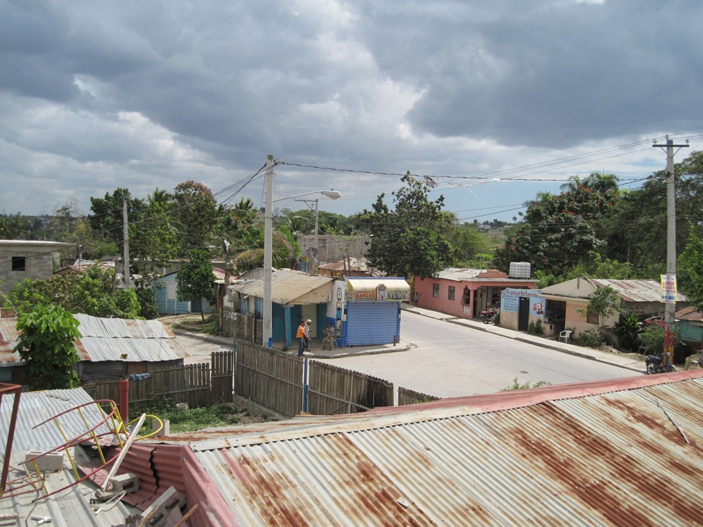 Looking east across Villa Hermosa from CCB, March 2011